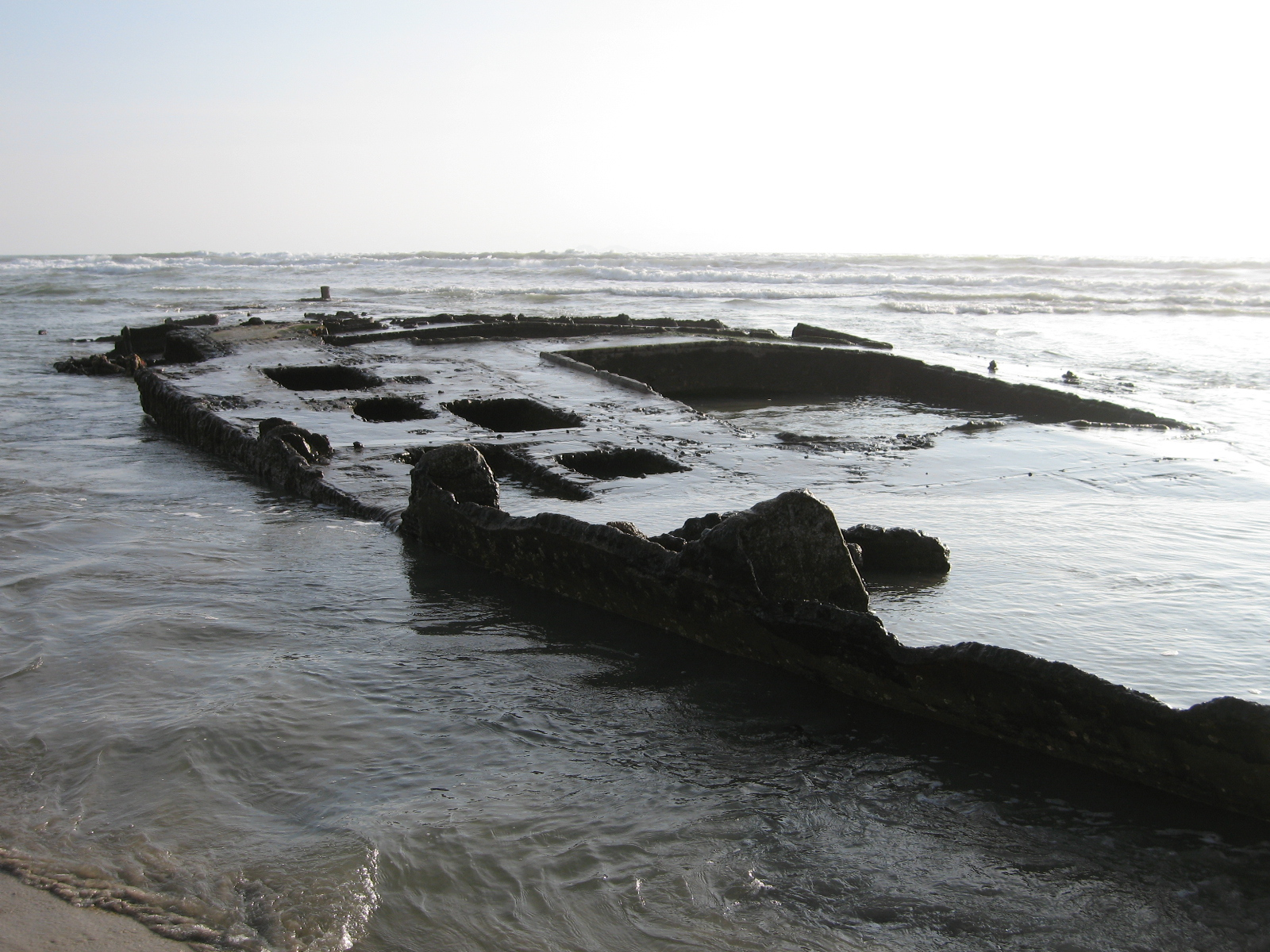 Photos taken at low-tide on 1/30/2010 of the wreck of the SS Monte Carlo near Coronado Shores, Coronado, California. The Monte Carlo was a 300 ft concrete-hulled ship originally launched as the McKittrick in 1921 from Wilmington NC. In 1936, the ship was anchored 3 miles of the coast of Point Loma and served as a gambling and prostitution ship, avoiding local laws as it was in international waters. On December 31, 1936, a storm broke the anchor lines, and the ship foundered near the shore and was abandoned by its owners (supposedly, the mob). It's usually buried in the sand, but occasionally turns up in low tides after storms.